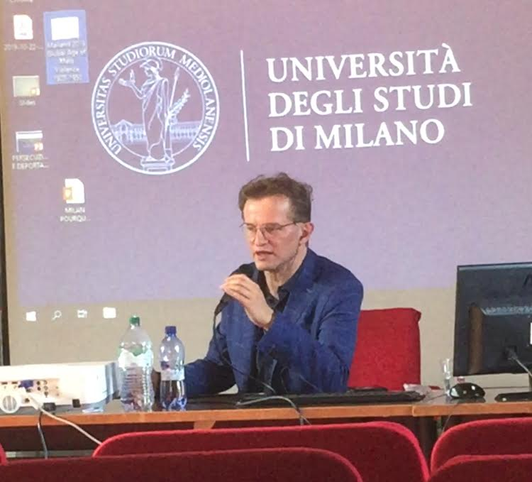 German historian Dieter Pohl pictured at the Università degli Studi di Milano during the convention "Comparing the Holocaust: The genocide and mass atrocities in the XXth century"